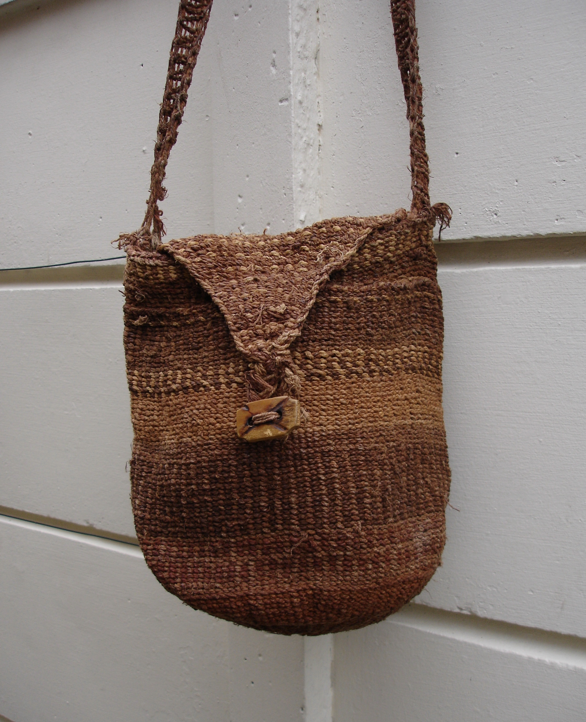 Shoulder bag woven from baobab bark fibres. Bought in Chimanimani, Eastern Highlands, Zimbabwe in 1995.